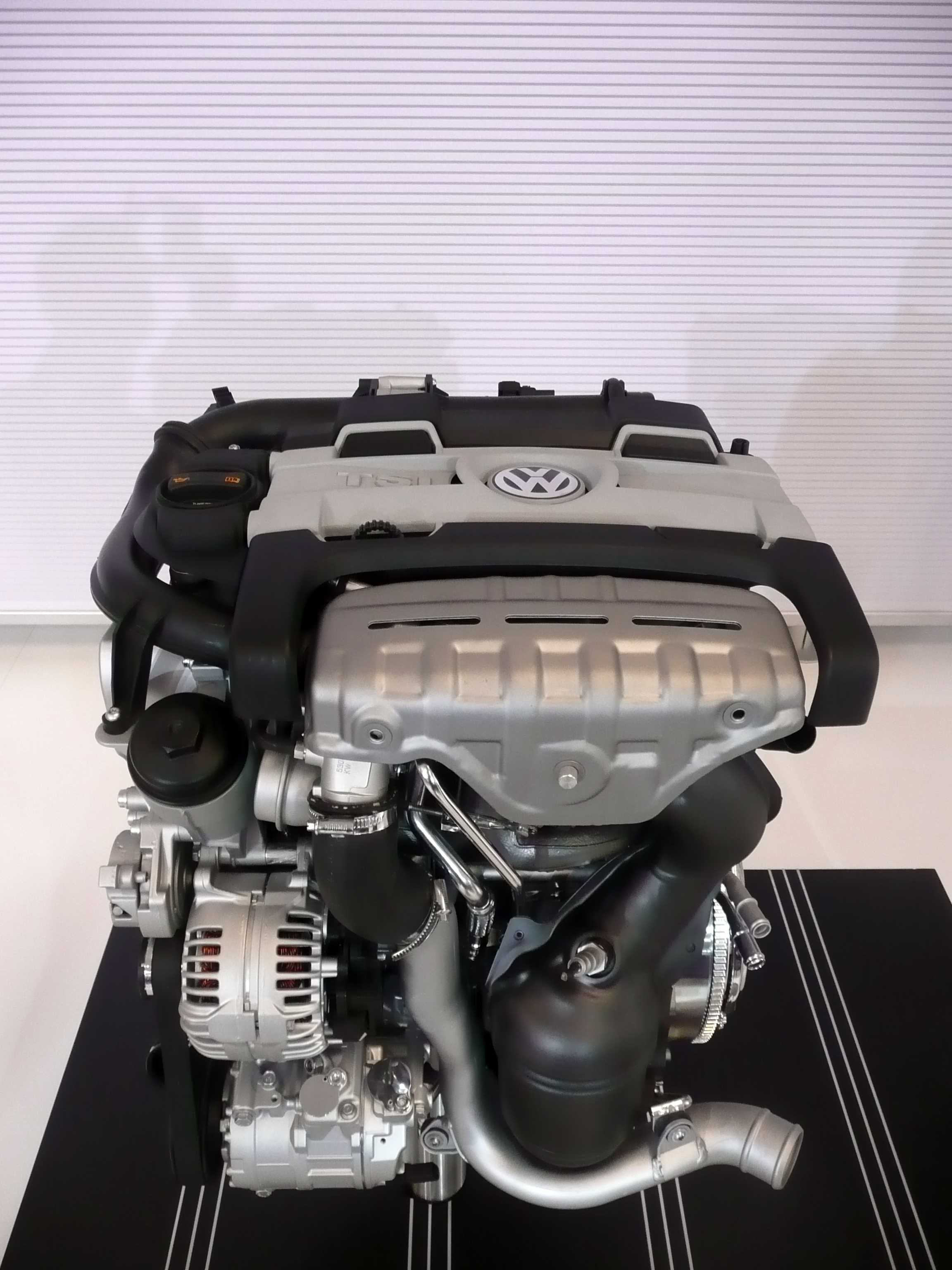 Volkswagen TSI engine. Photographed at the 2008 Australian International Motor Show, Sydney, New South Wales, Australia.